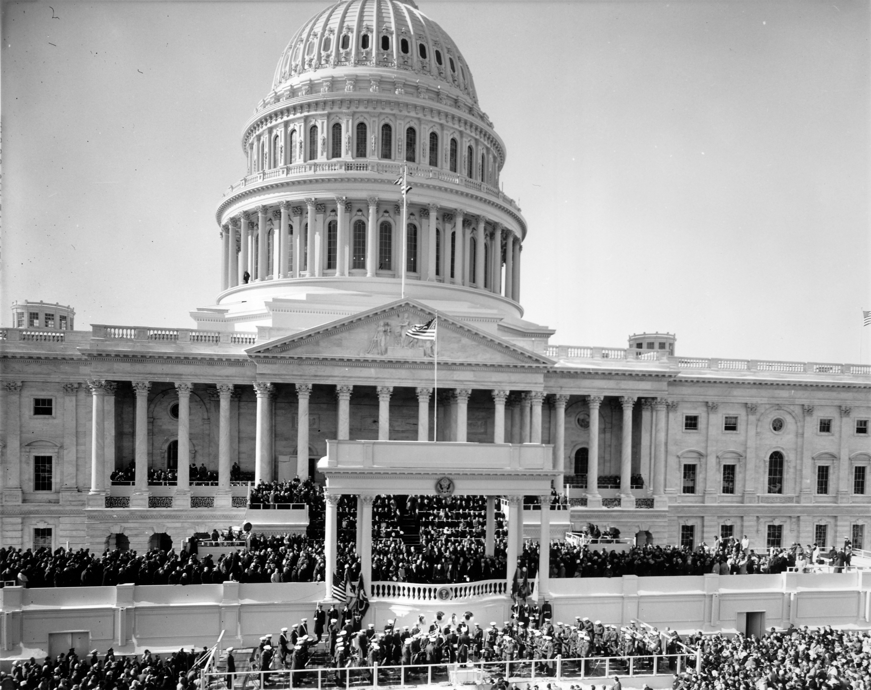 Inauguration of President John F. Kennedy on east portico of U.S. Capitol, January 20, 1961